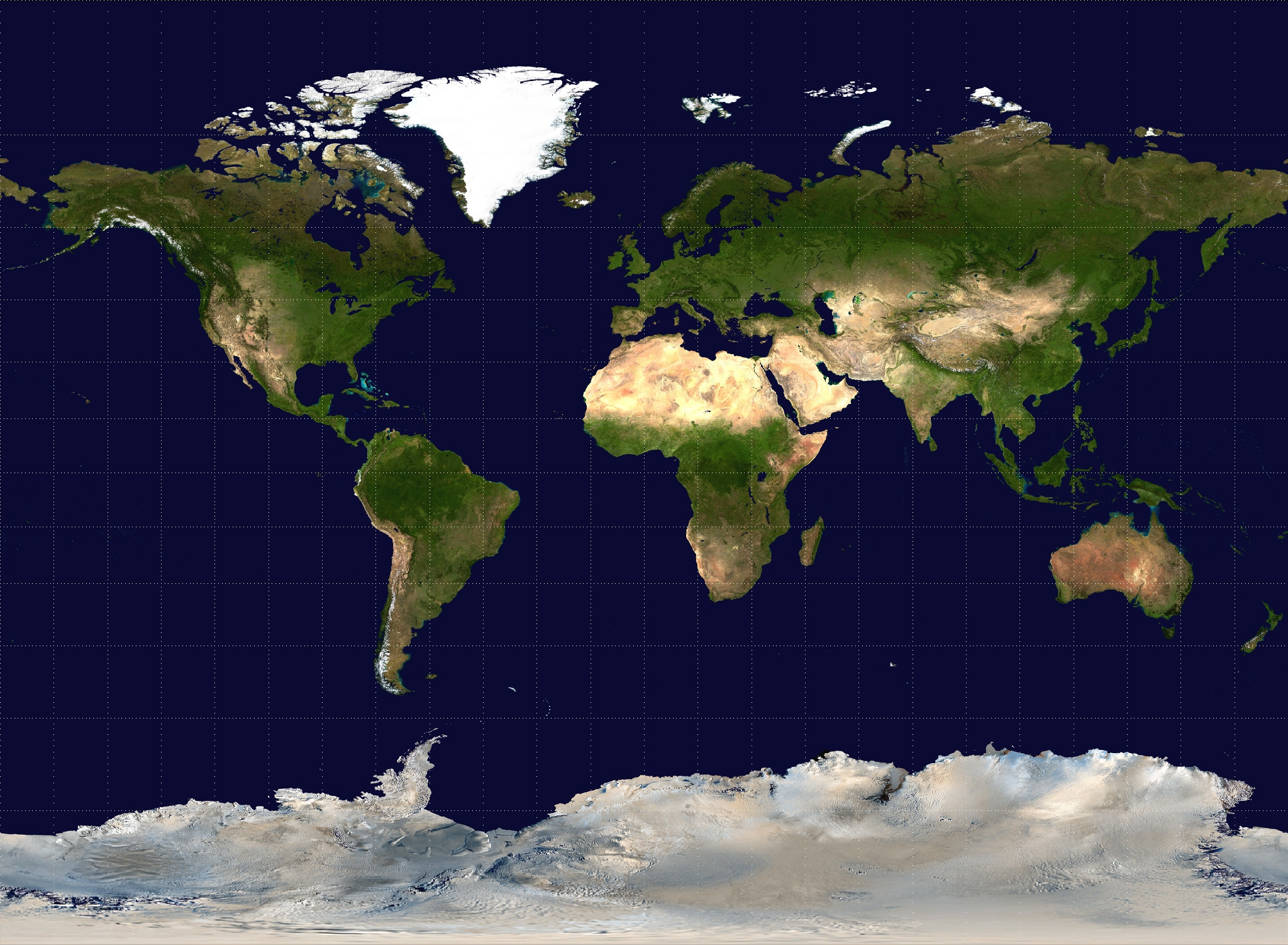 A Miller projection of a Visible Earth image collected by the Earth Observatory experiment of the U.S. Government's NASA space agency. The reticle is 15 degrees in latitude and longitude.